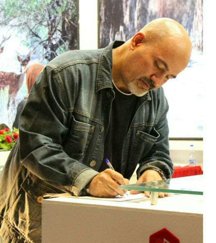 محمد درویش